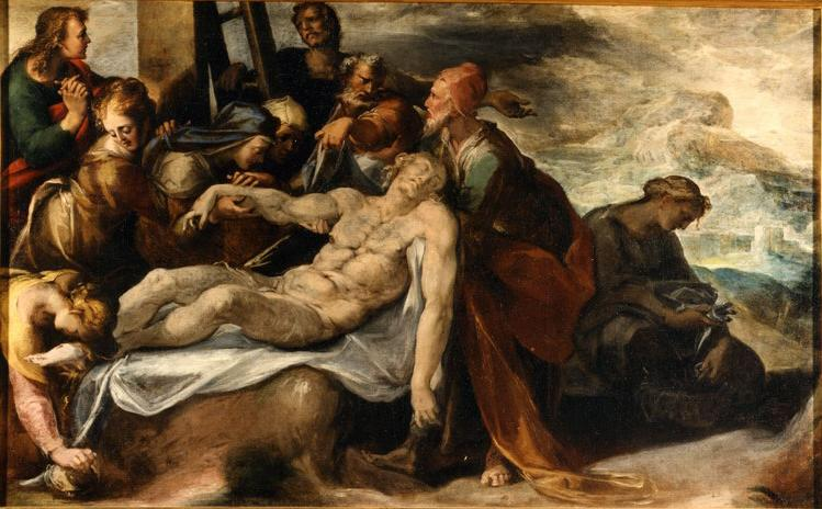 The Deposition